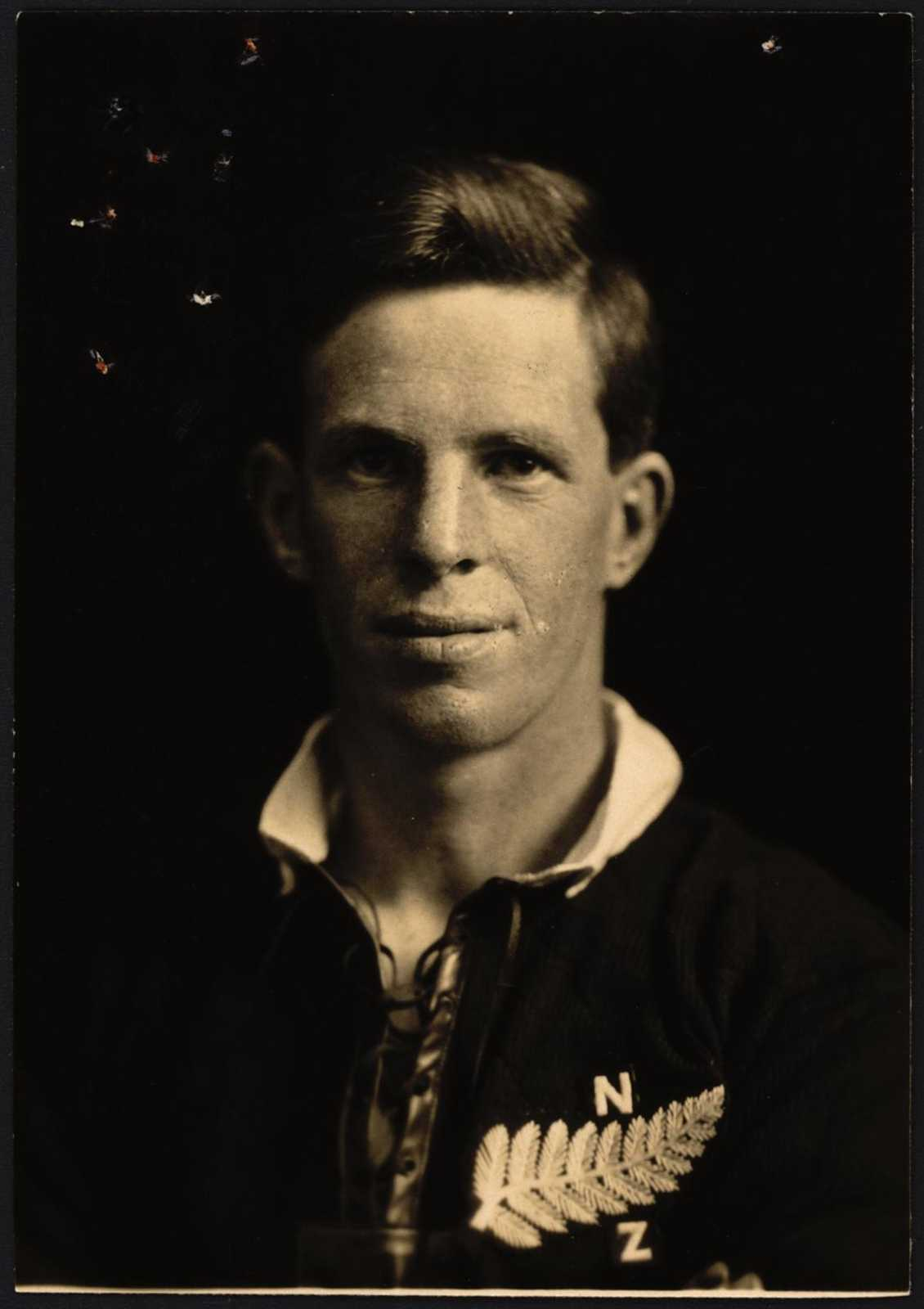 ACGO 8333 IA1 1349 / 15/11/17721 Marcus Nicholls passport photo (1924)